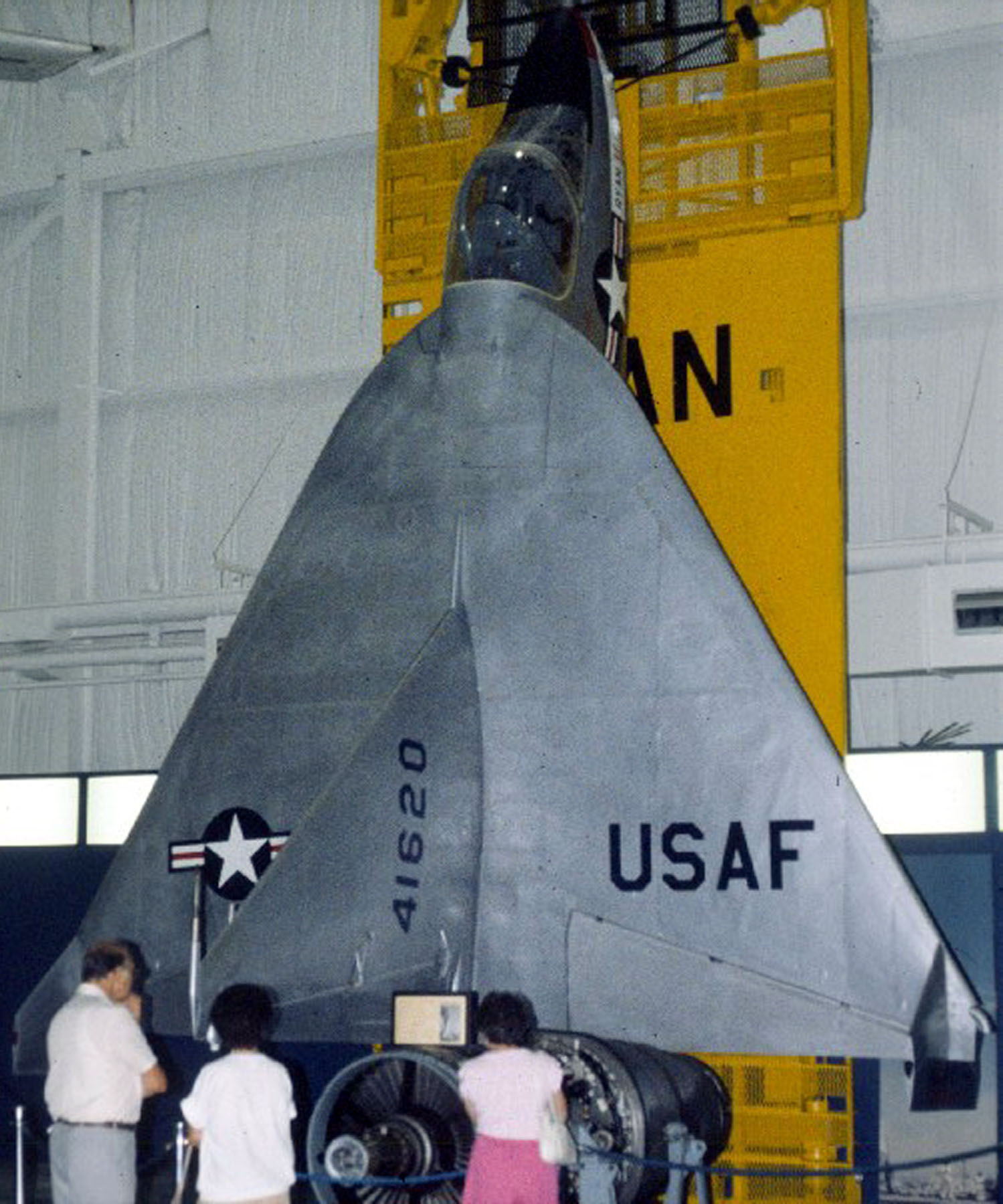 DAYTON, Ohio -- Ryan X-13 Vertijet at the National Museum of the United States Air Force. This Vertijet was the one who made the full-cycle flight on April 11, 1957 (#54-1620). He was transferred to the National Museum of the United States Air Force, Dayton, Ohio in 1959.